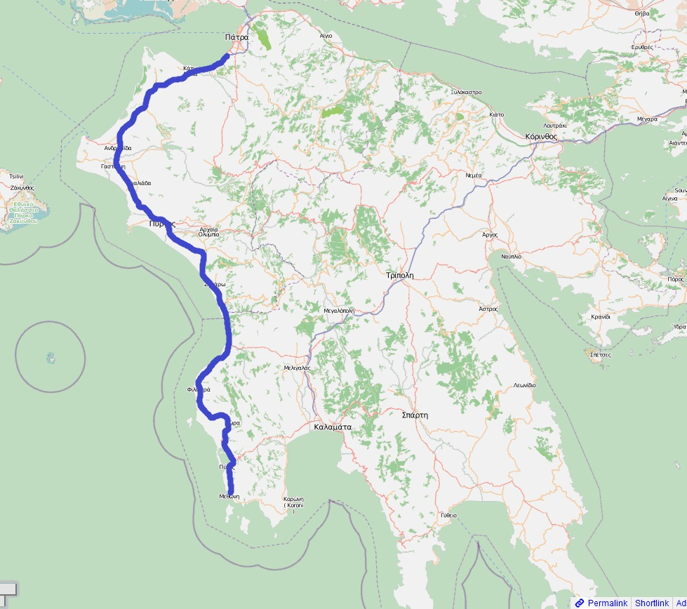 Map of Greek national road 9